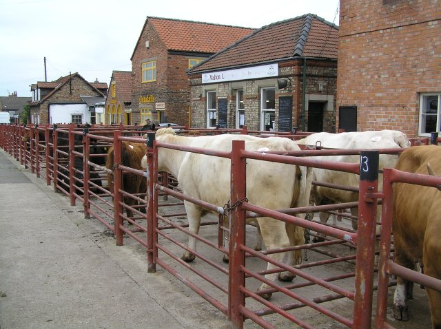 Malton Cattle Market. Cows and calves kept in the outdoor pens after being sold in a "special sale" - which meant there were unusually large numbers of cattle to deal with.